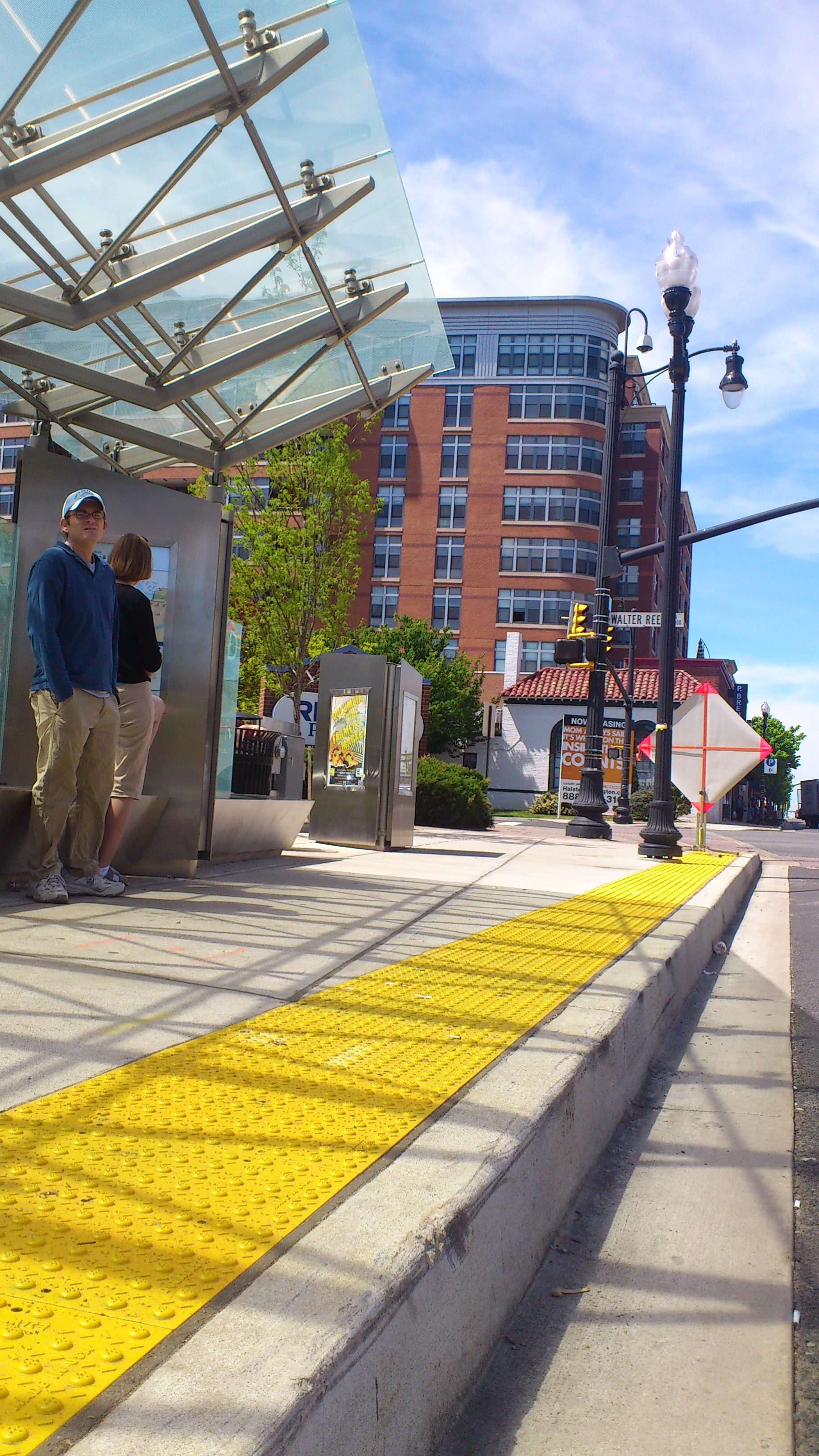 The Columbia Pike/Walter Reed SuperStation